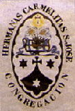 Old seal of the congregation of Carmelite Sisters of Saint Joseph, founded at Barcelona, 1900